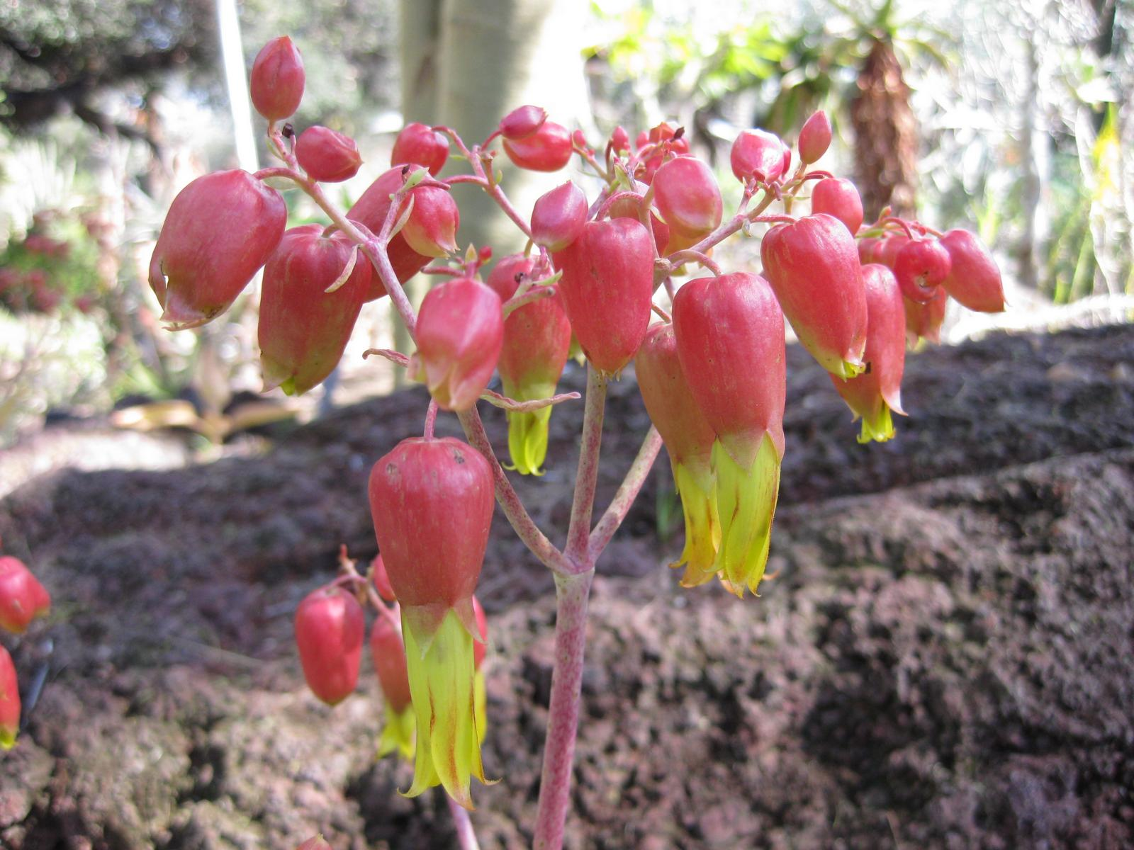 Photographed at Huntington Gardens (Los Angeles, California) in March